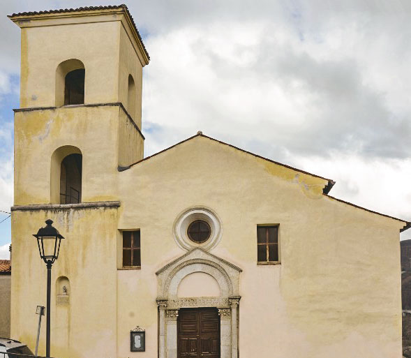 St. Michael church in Marsico Nuovo